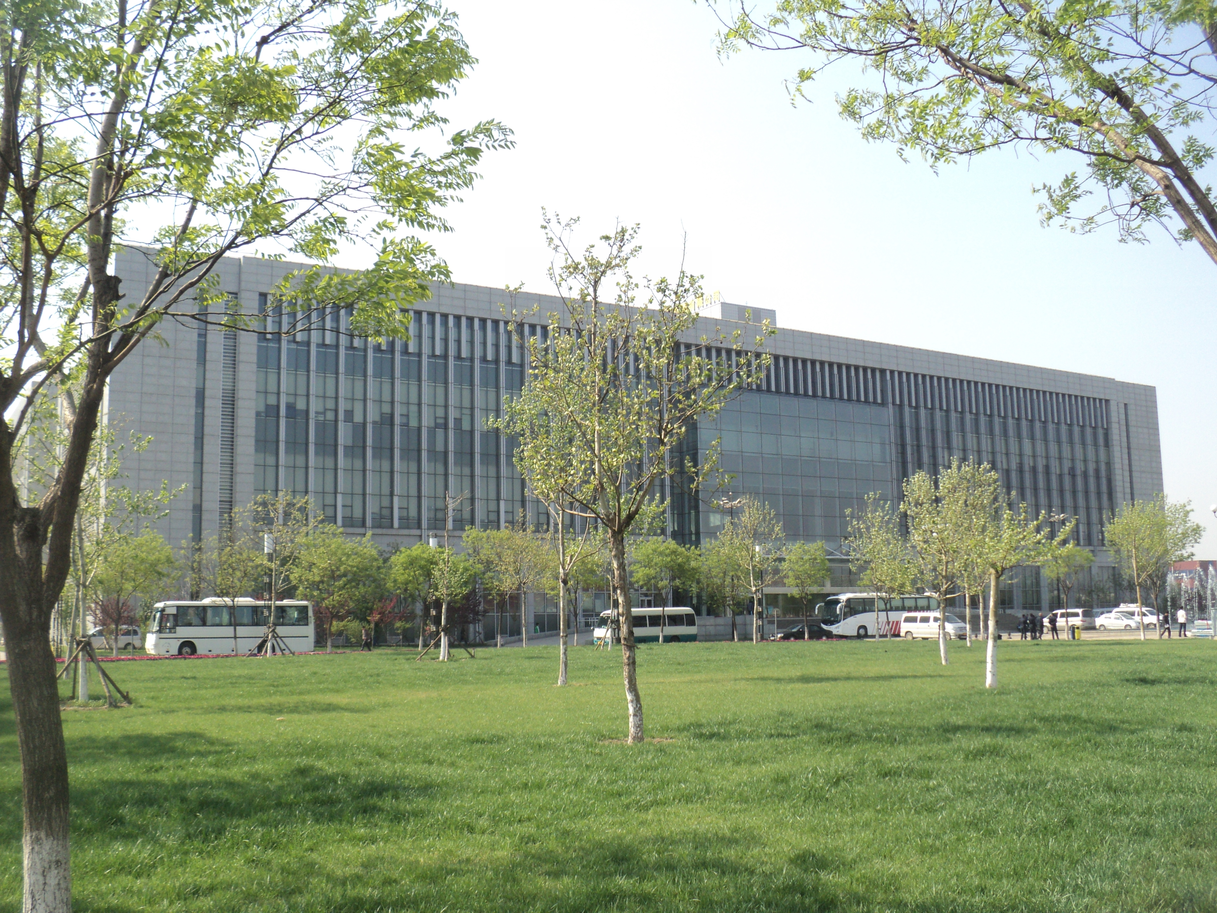 Tianjin Port International Trade and Shipping Service Center, the main clearing and business center of the port, processing customs, immigration, inspection and quarantine, etc.